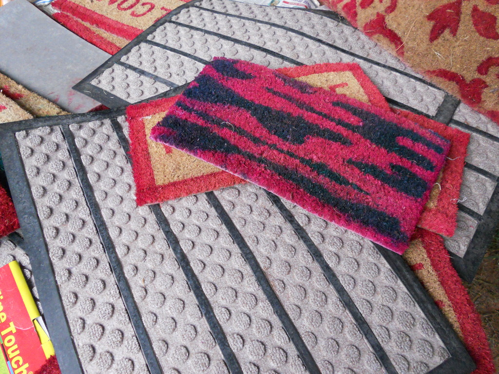 Coir mat